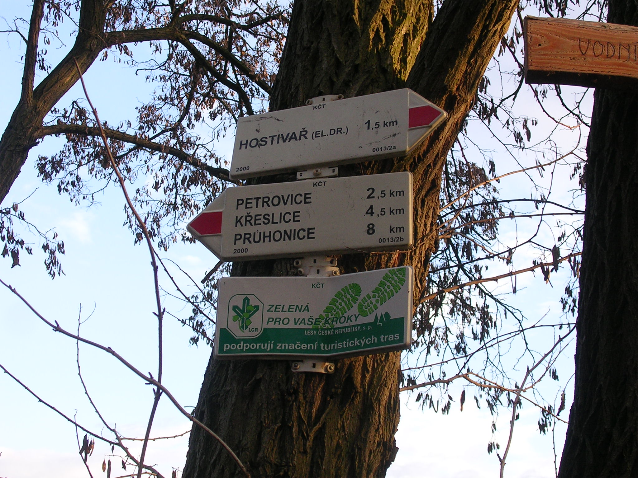 Hostivař, Prague, the Czech Republic. Hiking signs near a dam.